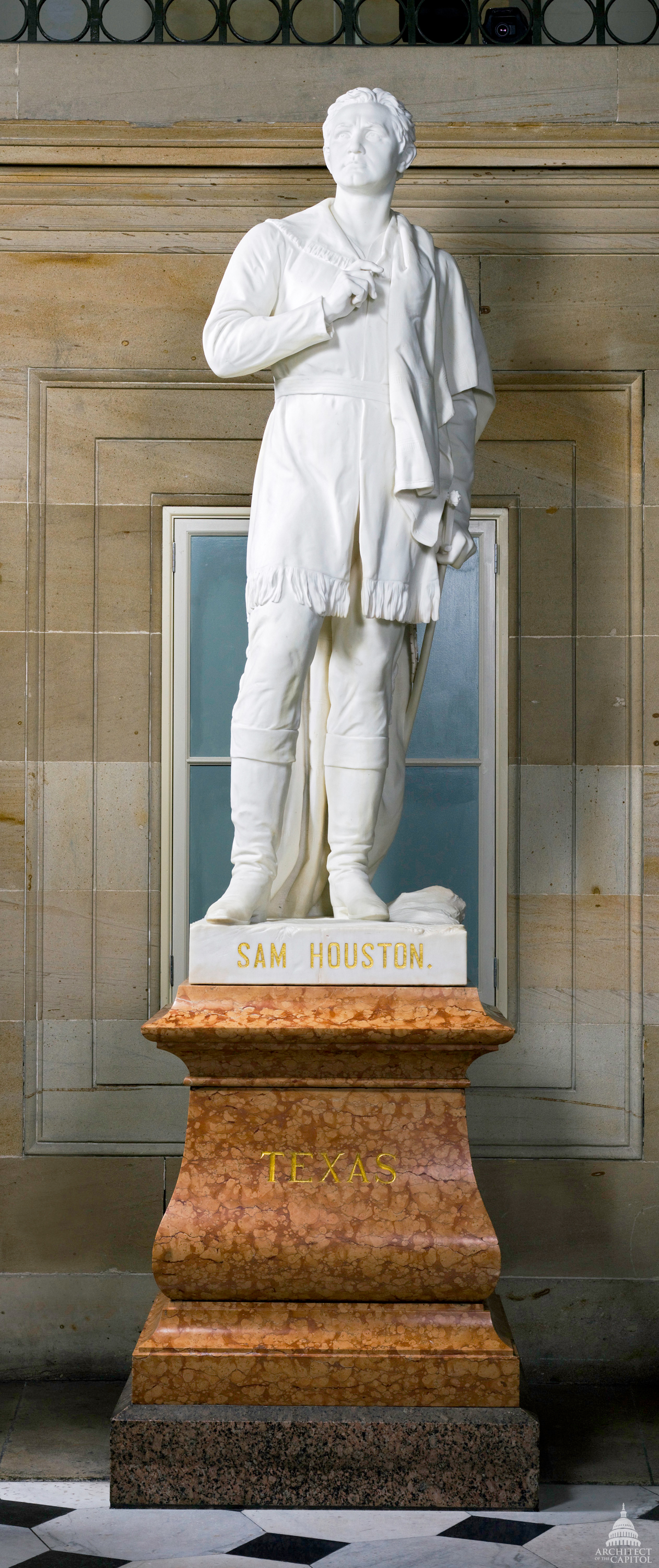 Sam Houston (1793-1863) Texas Marble by Elisabet Ney Given in 1905 National Statuary Hall U.S. Capitol This official Architect of the Capitol photograph is being made available for educational, scholarly, news or personal purposes (not advertising or any other commercial use). When any of these images is used the photographic credit line should read “Architect of the Capitol.” These images may not be used in any way that would imply endorsement by the Architect of the Capitol or the United States Congress of a product, service or point of view. For more information visit